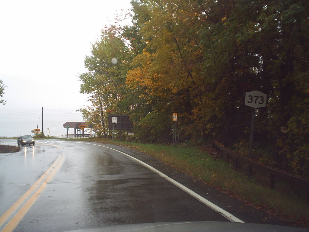 New York State Route 373 in the Adirondacks.